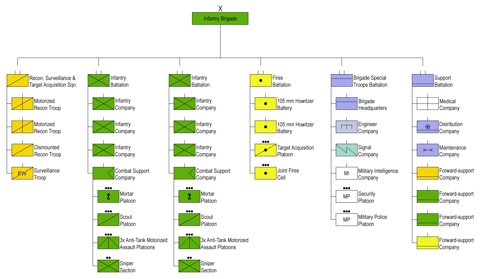 Infantry Brigade Structure Transformation of the United States Army